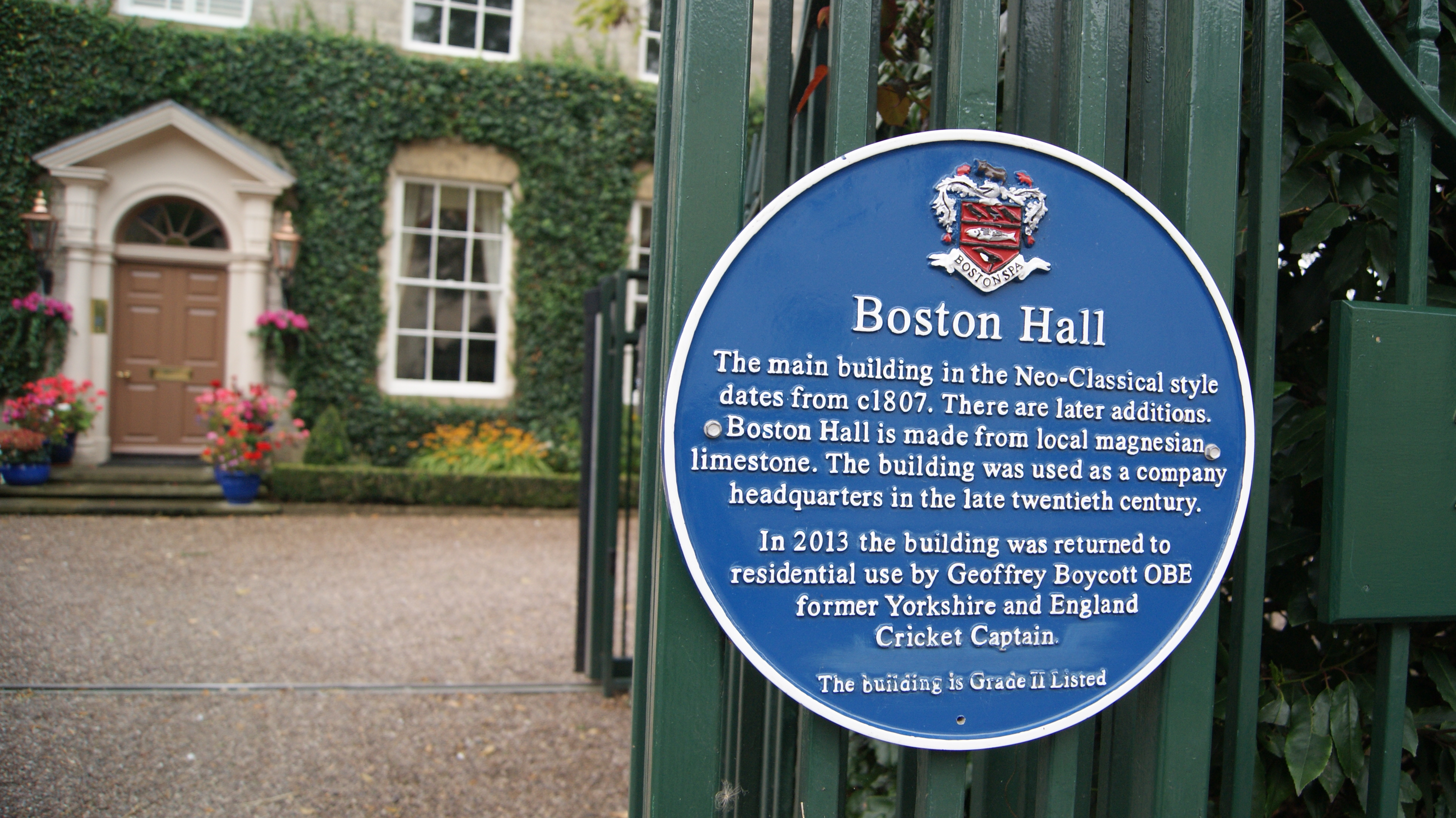 Boston Hall, High Street, Boston Spa, West Yorkshire. Taken on the evening of Monday the 21st of August 2017.